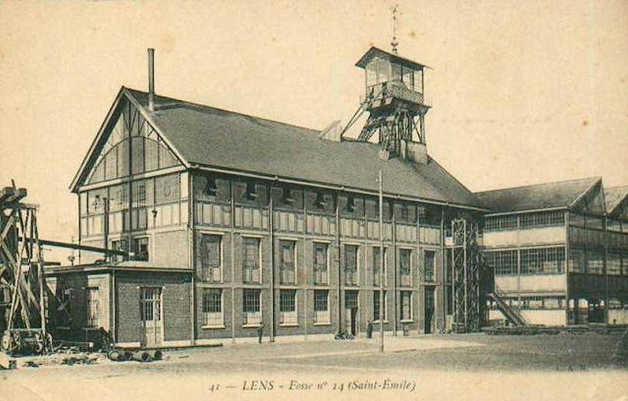 Coalpit n° 14, Compagnie des mines de Lens, Lens, Pas-de-Calais, France.